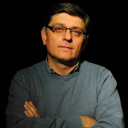 Andro Enuqidze